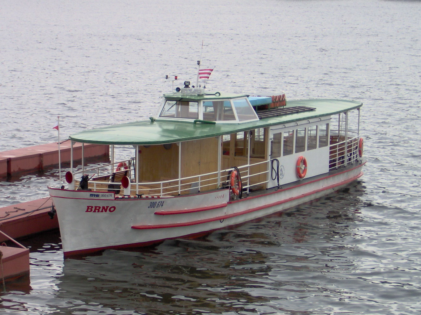 Ship Brno on the Brno dam